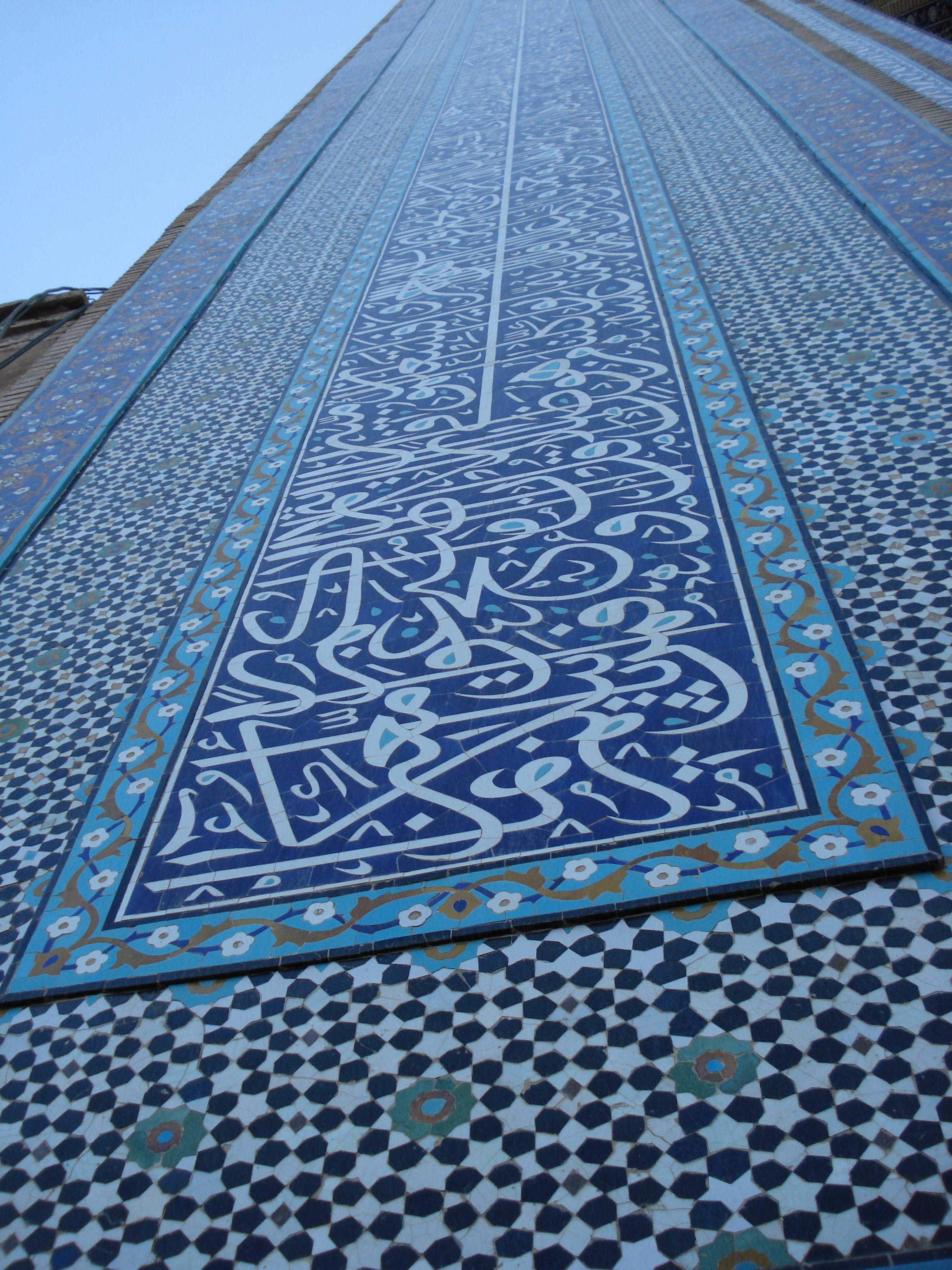 detail of the left wall of Mazar of Sheikh Jam in Torbat Jam, Iran